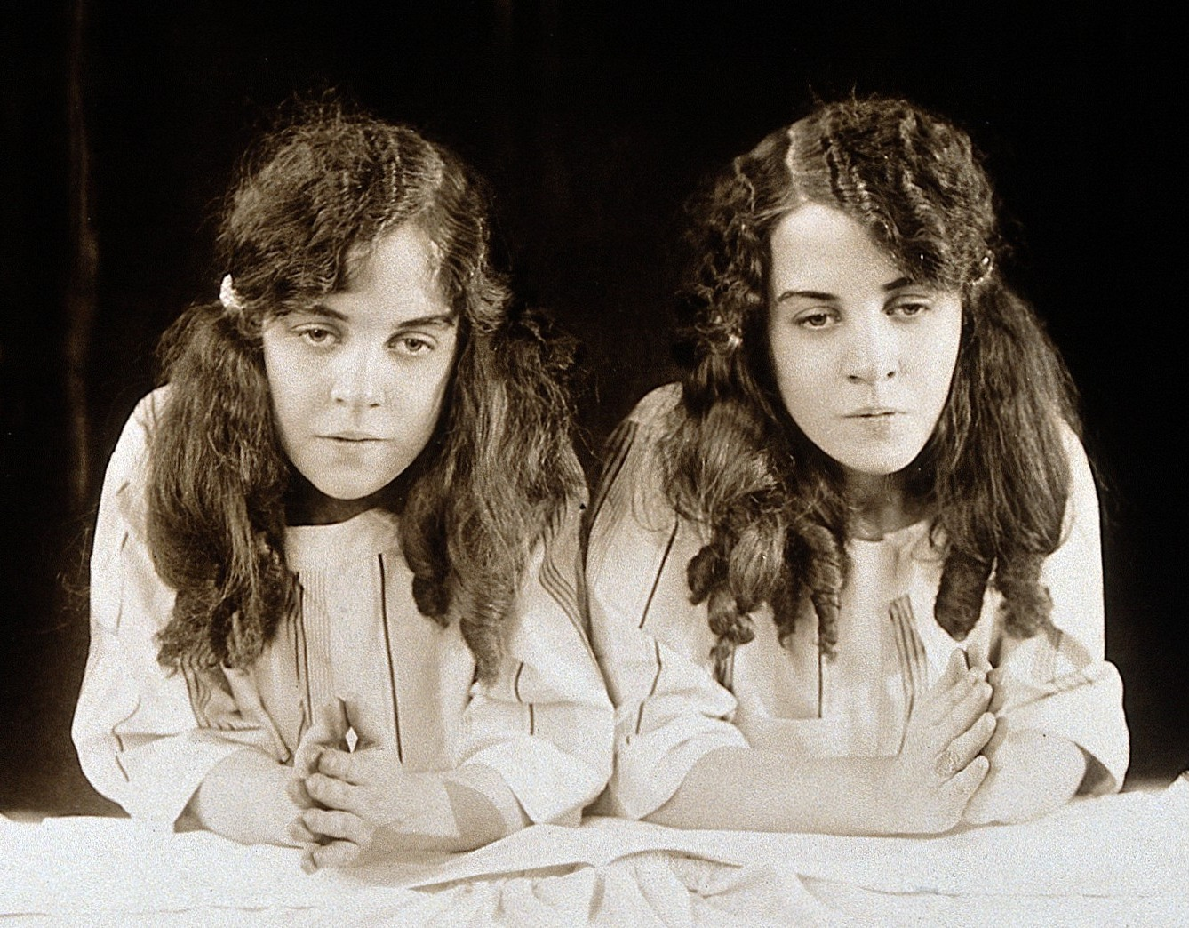 Daisy and Violet Hilton, conjoined twins